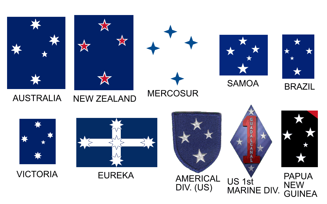 The Southern Cross crux appearing on a number of flags and badges From left to right: Top row: Flag of Australia Flag of New Zealand Flag of Mercosur Flag of Samoa Flag of Brazil Bottom row: Flag of Victoria Eureka Flag Americal Division (United States) 1st Marine Division (United States) Flag of Papua New Guinea